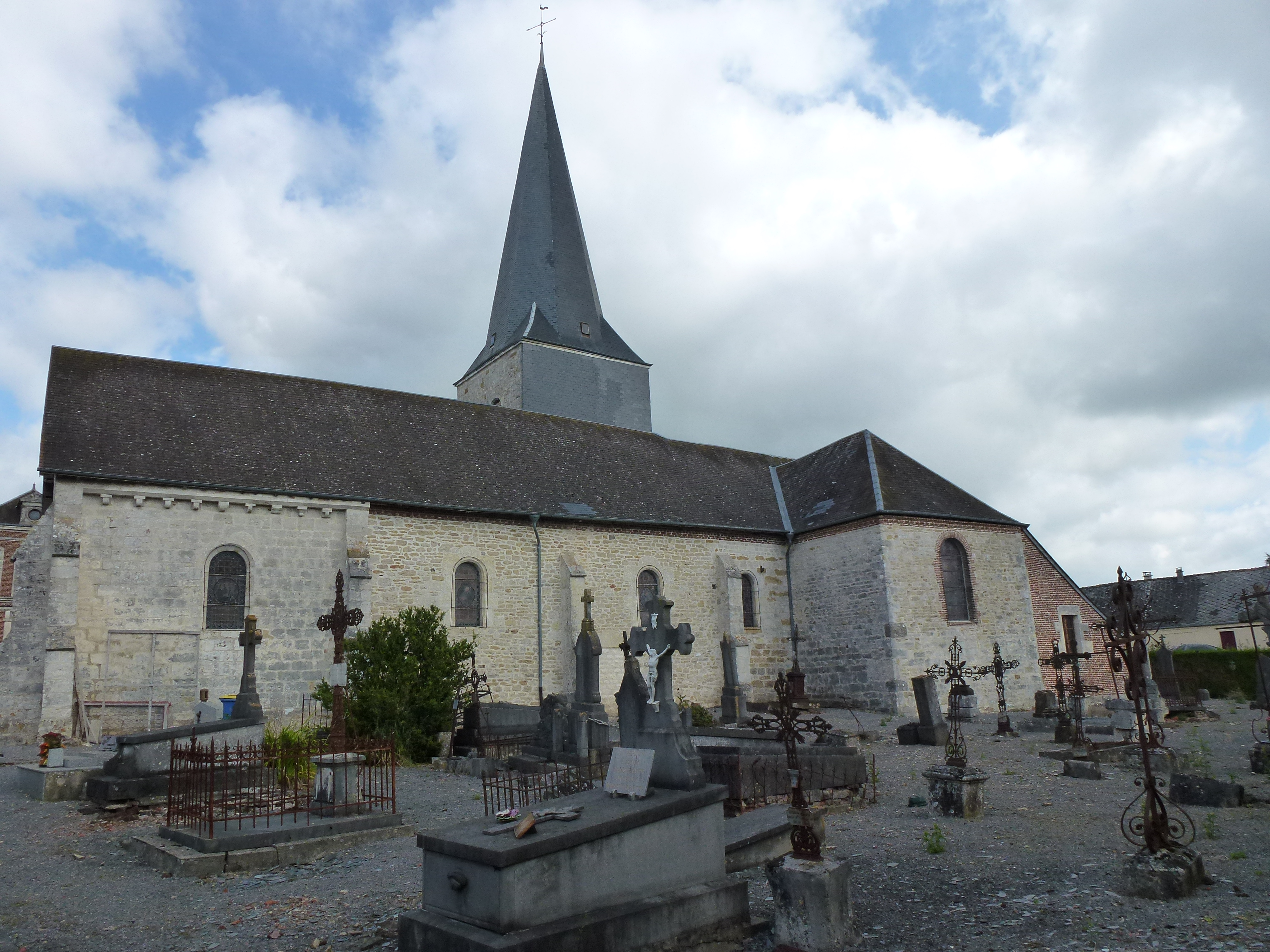 Any-Martin-Rieux (Aisne) église d'Any